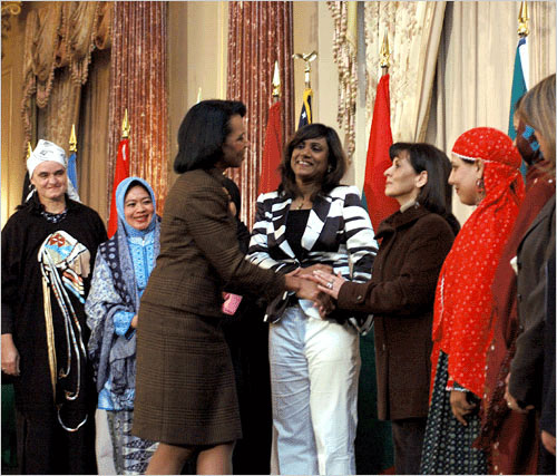 On March 7, U.S. Secretary of State Condoleezza Rice inaugurated the Secretary's International Women of Courage Award. Ten Women from Afghanistan, Argentina, Indonesia, Iraq, The Maldives, Latvia, Saudi Arabia and Zimbabwe received the award this year. Through this annual award the United States will honor the courage of extraordinary women worldwide who have played transformative roles in their societies. (Left to right) Jennifer Louise Williams of Zimbabwe; Dr. Siti Musdah Mulia of Indonesia; Secretary of State Condoleezza Rice; Mariya Ahmed Didi of the Maldives; Sara Susana del Valle Trimarco de Veron of Argentina; Mary Akrami of Afghanistan.